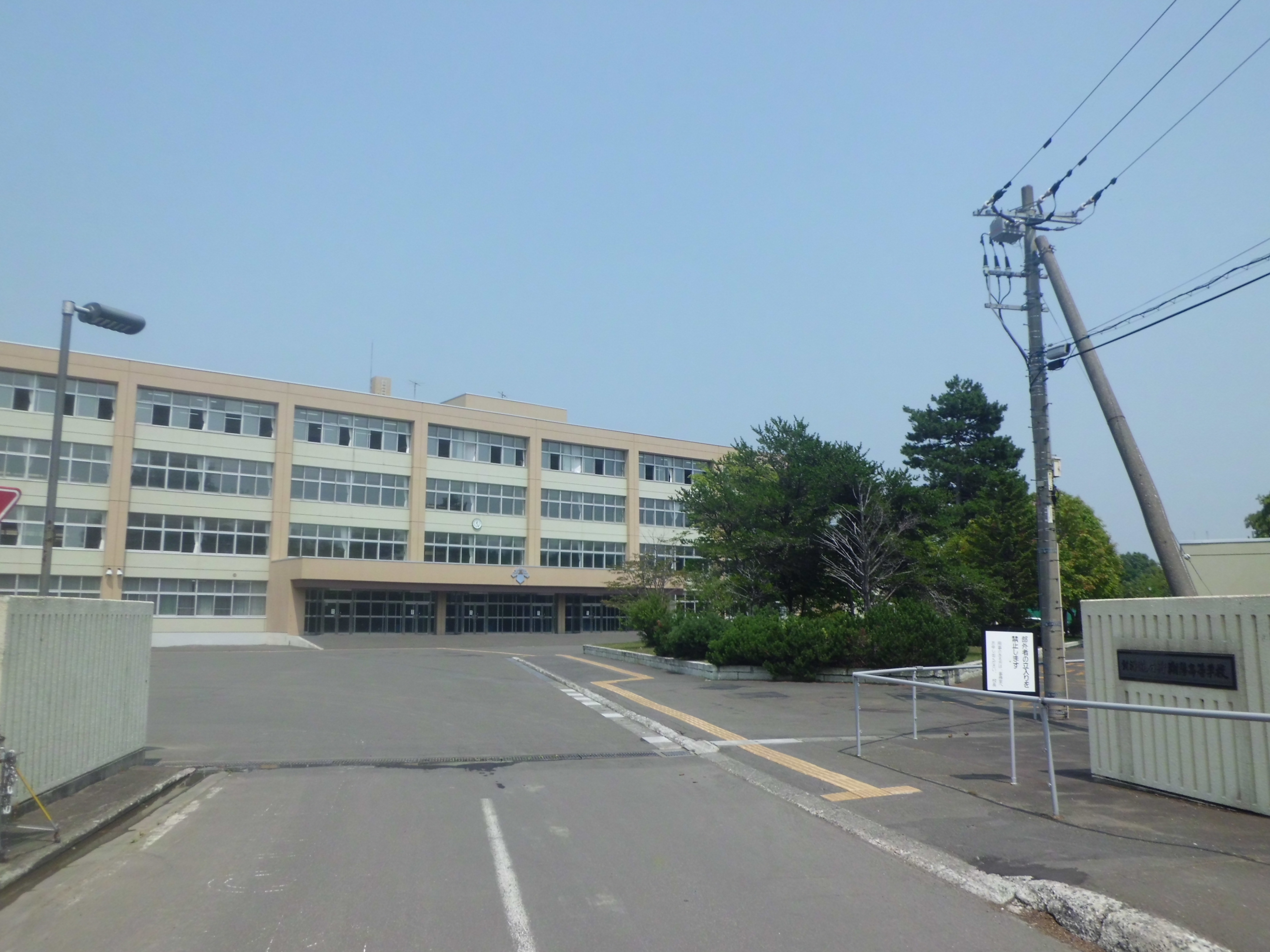 Hokkaido Ishikari Shoyo High School